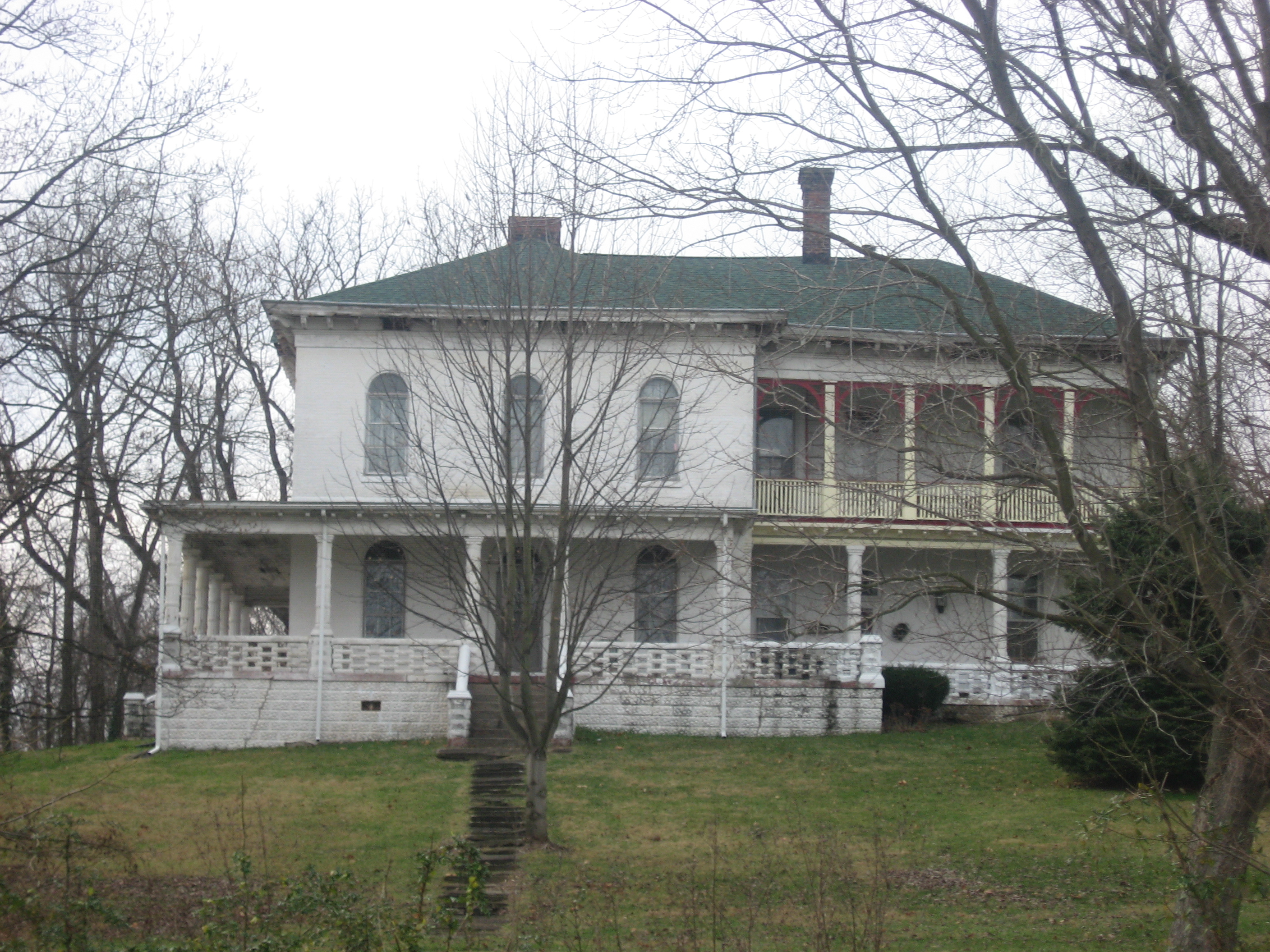 Roadside view of the house at the Franklin Landers-Black and Adams Farm, located at 2430 S. Old State Road 67 near Brooklyn in Clay Township, Morgan County, Indiana, United States. Built in 1862, it is listed on the National Register of Historic Places.